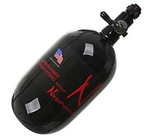 A sűrített levegős palackok közül 200 és 300 bar-ra vizsgáztatottak vannak forgalomban. Az alumínium palackok általában 200 barosok és tömegük nagyobb mint a 300 baros kompozit palackoké. A versenyzők többsége 1,1 literes, 300 baros kompozit palackot használ, de lehetőség van ennél kisebb illetve nagyobb sztenderd méretek beszerzésére is.